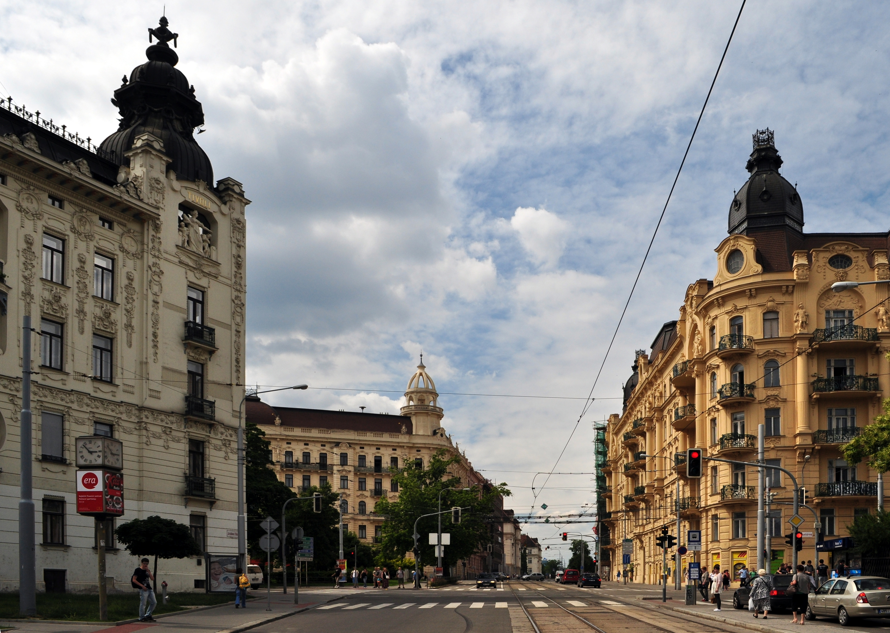 Konečného náměstí in Brno